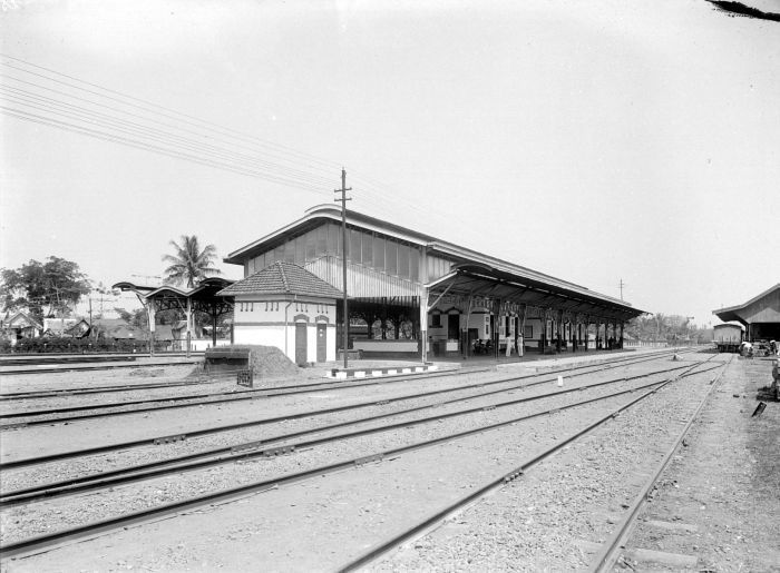 Railwaystation of Purwosari, Java